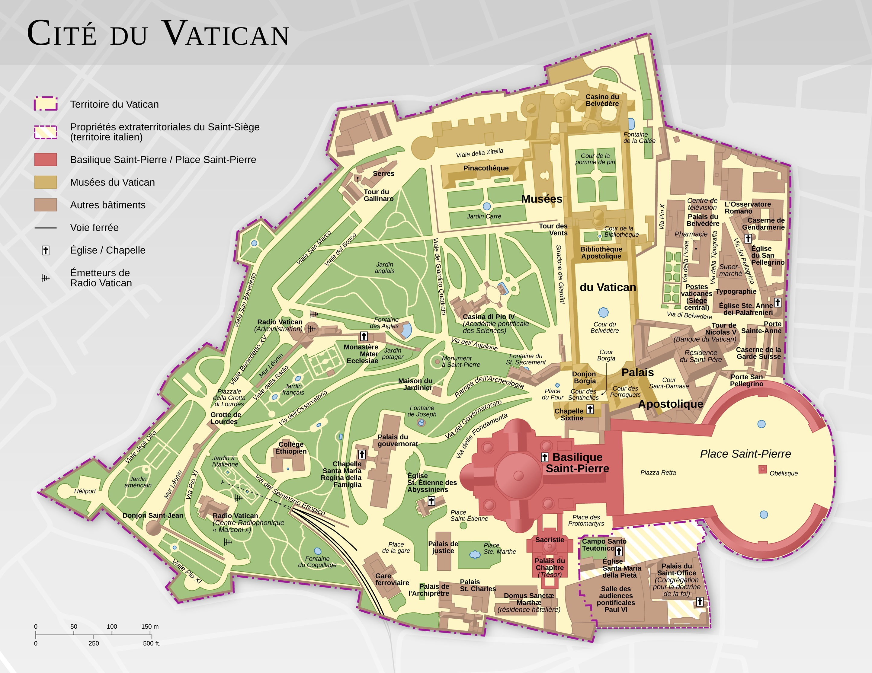 Map of the Vatican City (French version)